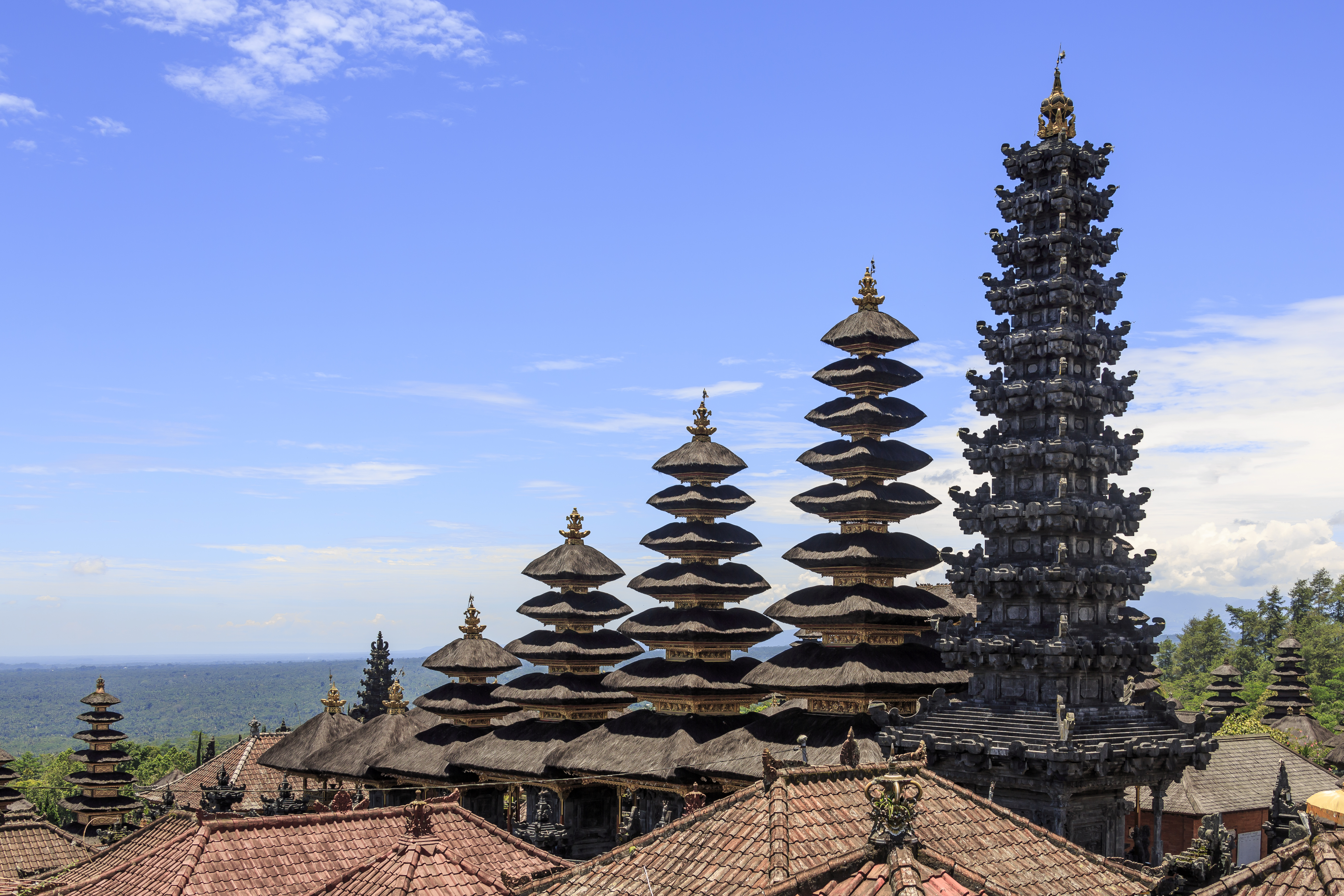 Besakih, Bali, Indonesia: The Mother Temple of Besakih, or Pura Besakih, in the village of Besakih on the slopes of Mount Agung in eastern Bali, Indonesia, is the most important, the largest and holiest temple of Hindu religion in Bali.